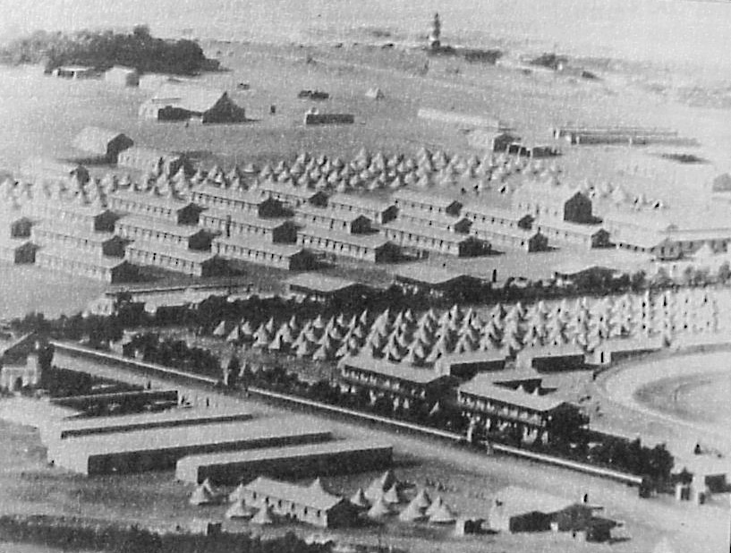 Very old photograph of Green Point Common, Cape Town, during the Second Boer War. The area is being used as a transit camp for prisoners of war to be shipped to remote islands. The Mouille Point Lighthouse can be seen in the background and the beginnings of the old Green Point Stadium are visible on the lower righthand side.